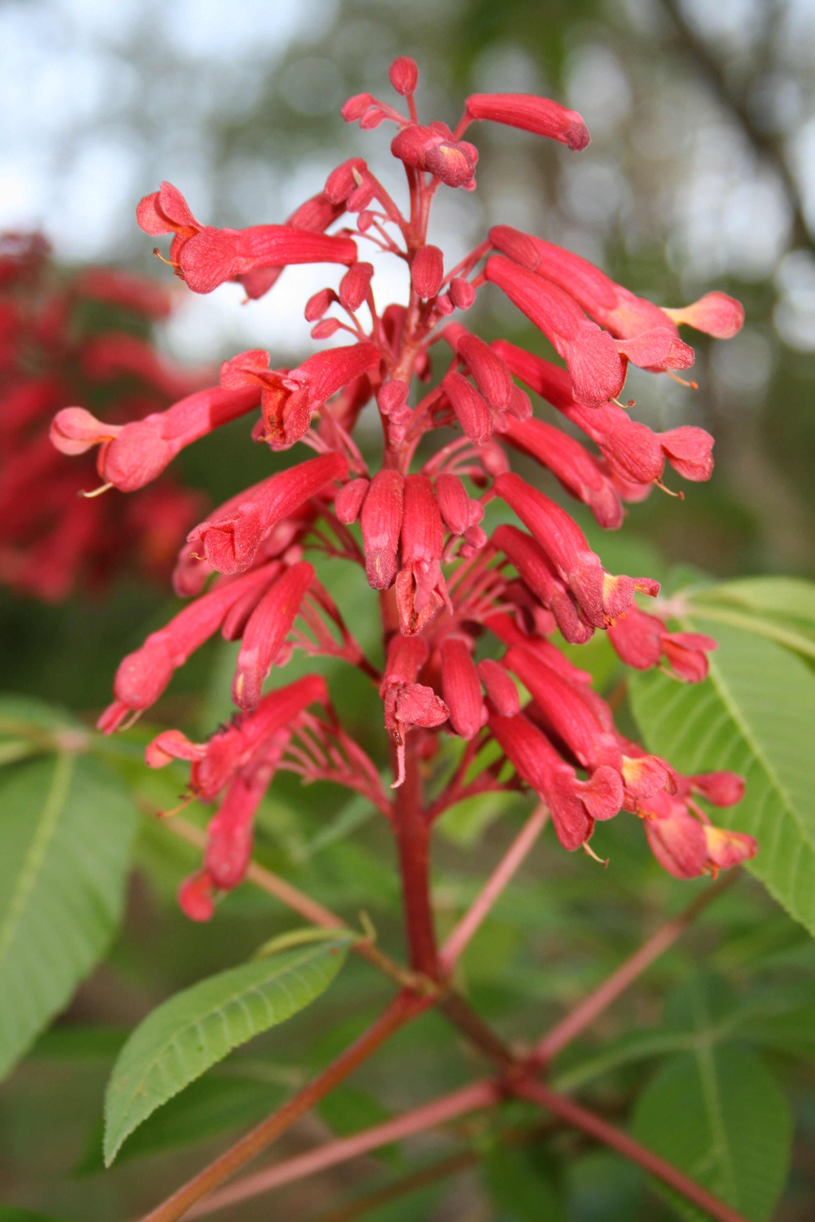 Dwarf red buckeye is a coastal plain shrub found along streambanks and rich bottomlands of western Tennessee. The species can become a small tree, 3 to 6 m, but is usually a sprawling, multi-stemmed shrub. Bright red inflorescences emerge in late March to May. The "good luck" seeds emerge from the leathery fruits in October. Fayette County, TN